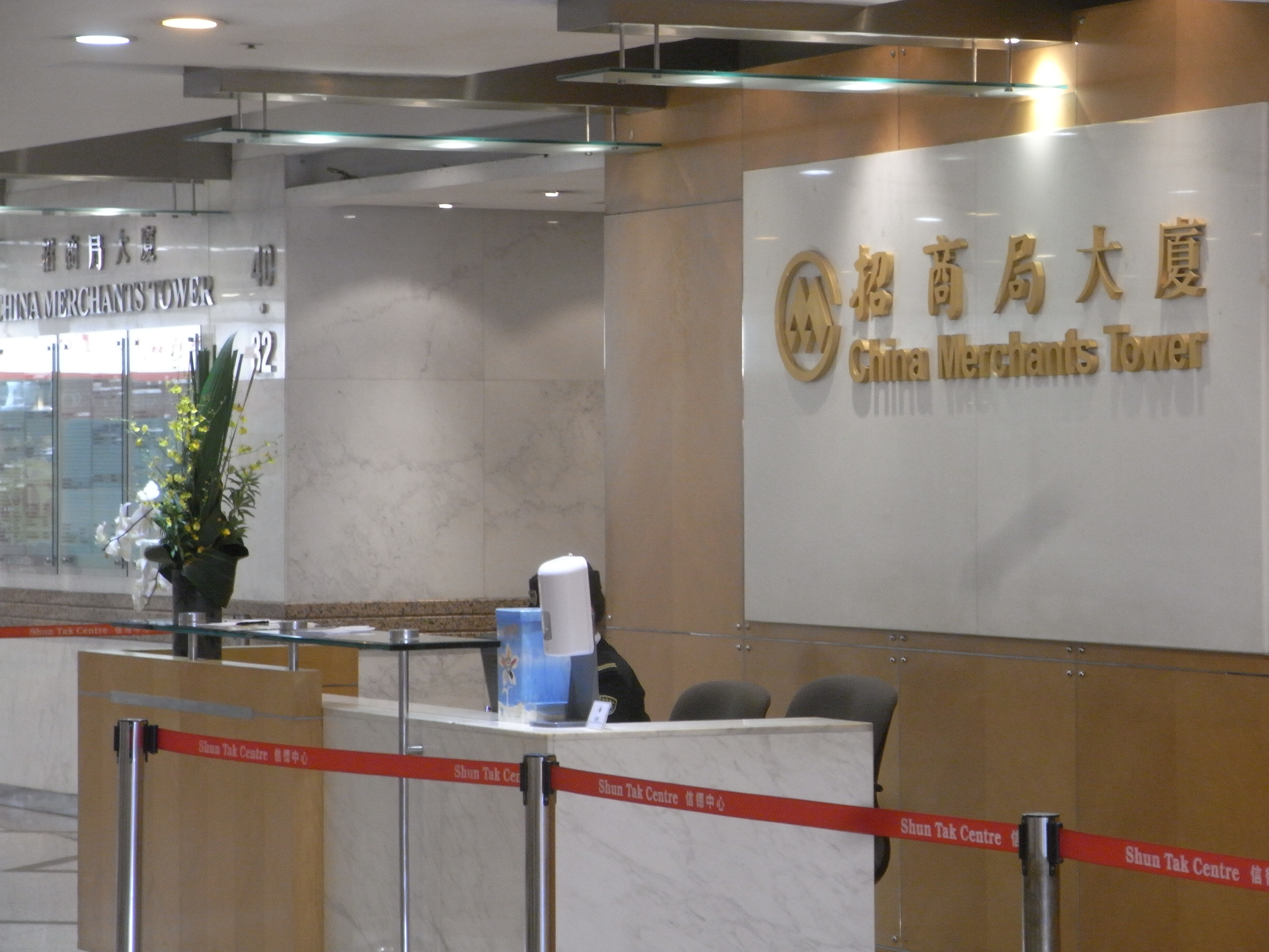 上環信德中心